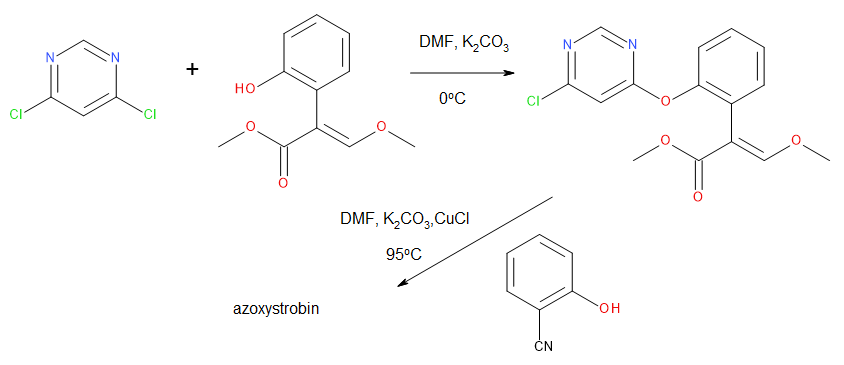 Shows original route to Azoxystrobin from EP0382375; this led to the development of the commercial fungicide